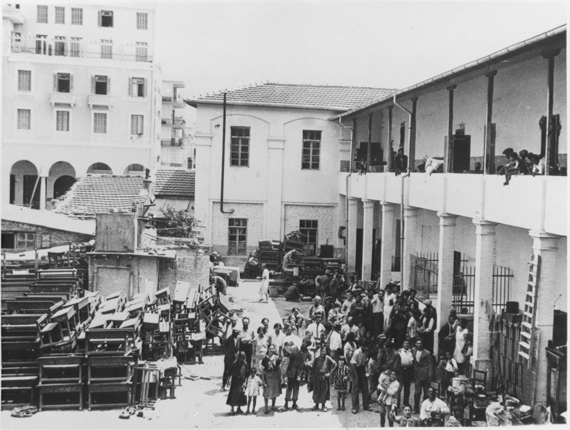 Jewish refugees leaving their homes for fear of another attack after the pogrom at Camp Campbell in Thessaloniki. During the night of June 29, 1931 and continuing into the early hours of the next morning, the entire Jewish settlement of Camp Campbell was destroyed by fire and 500 families made homeless, when Greek Christian refugees from Asia Minor unleashed a pogrom. Scores of Jews were injured in the attack and one Jew and one Christian were killed.